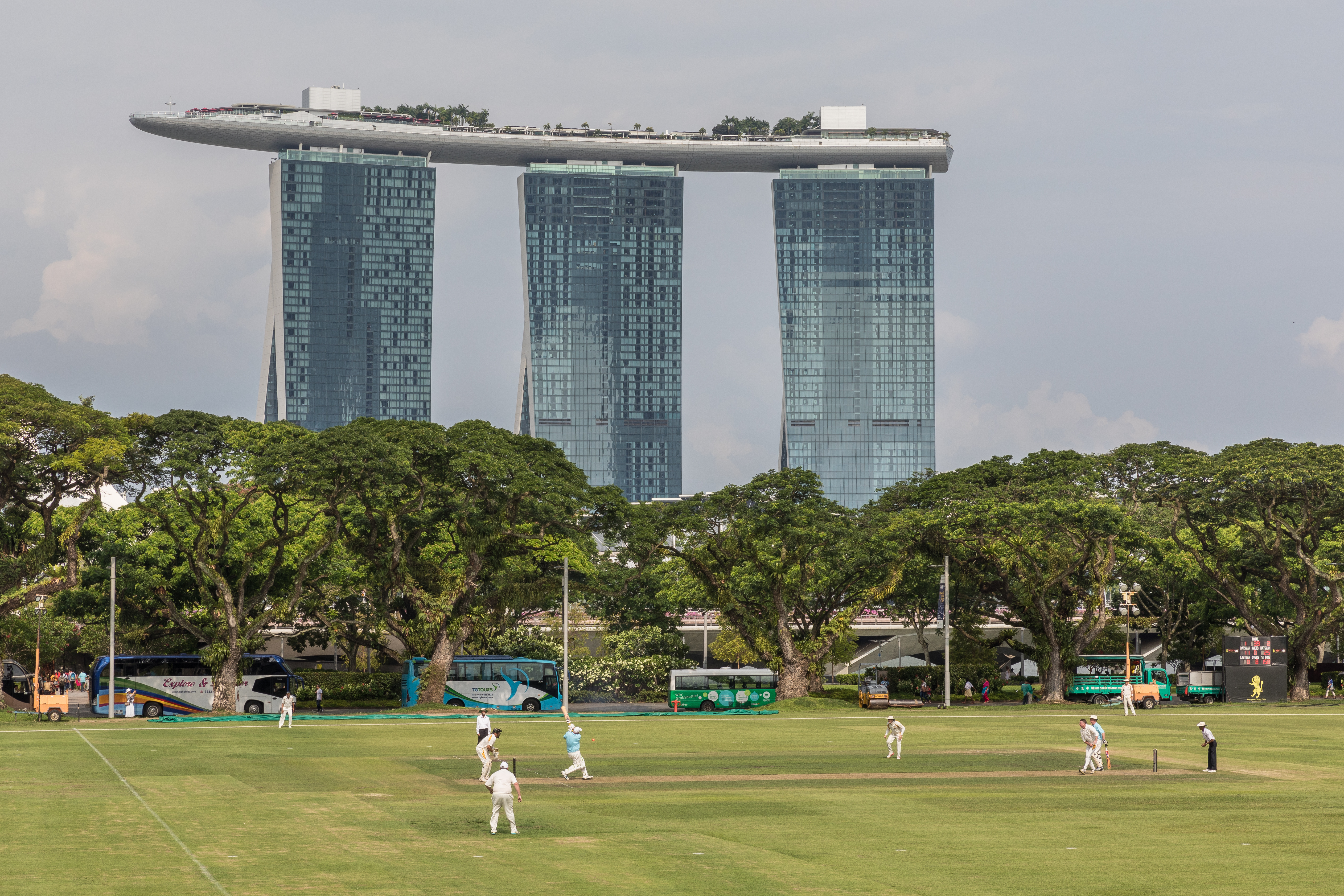 Cricket match with players from the cricket club in Padang park with the Marina Bays Sands Hotel in the background, view from the stairs of the Singapore National Gallery